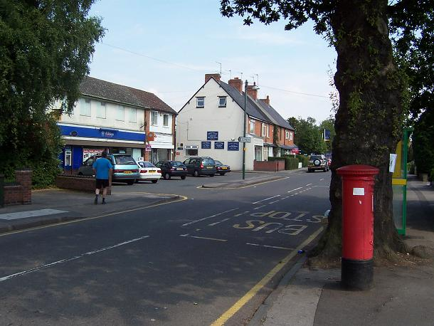 Bentley Heath. The view from the post office.